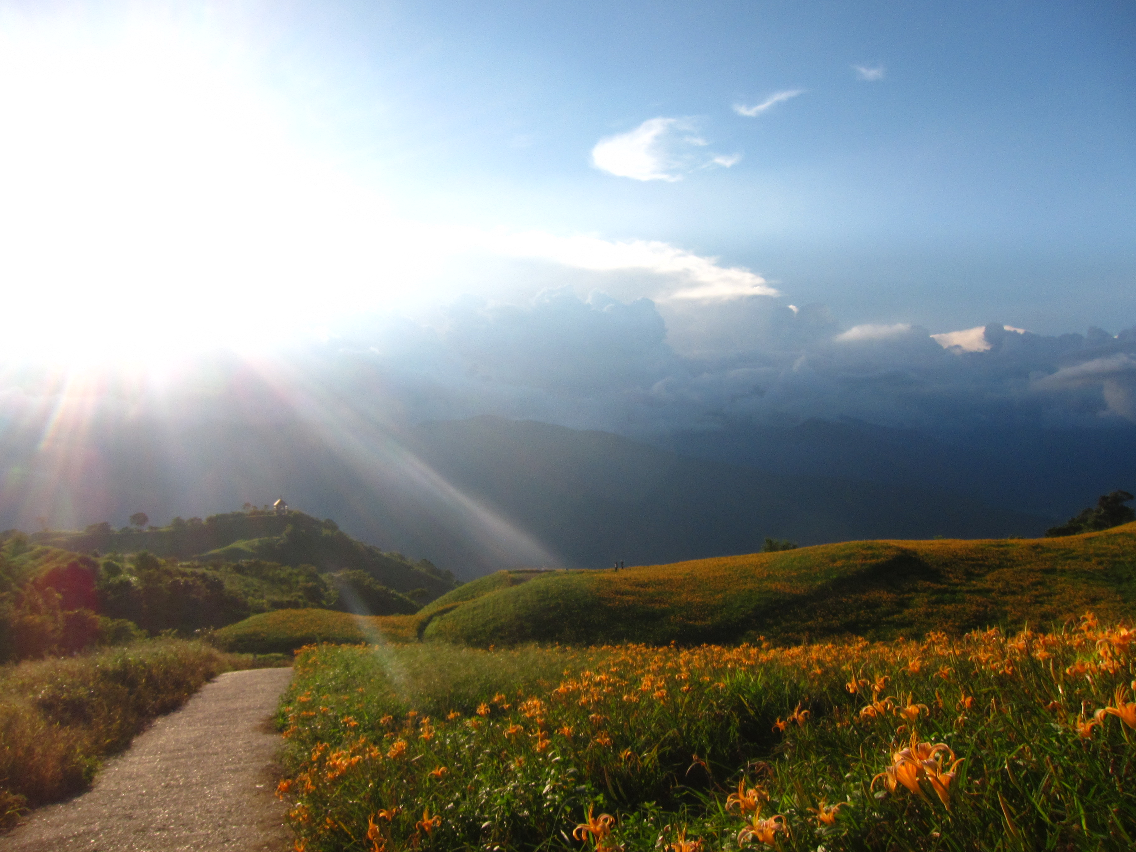 Citron daylily farm in Liushishi Shan, Hualian, Taiwan.